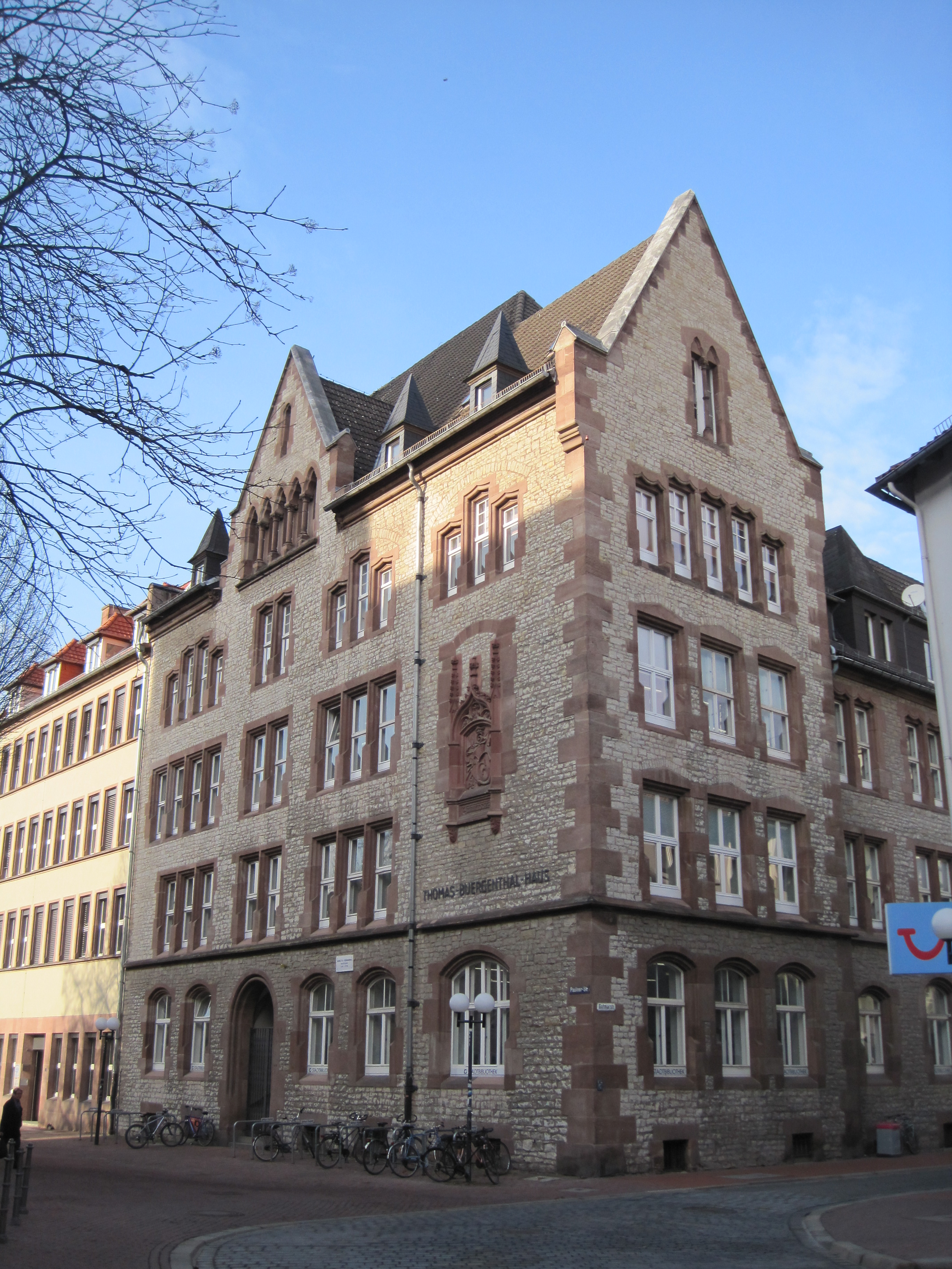 City library in Thomas-Buergenthal-Haus, Göttingen, Germany check usage